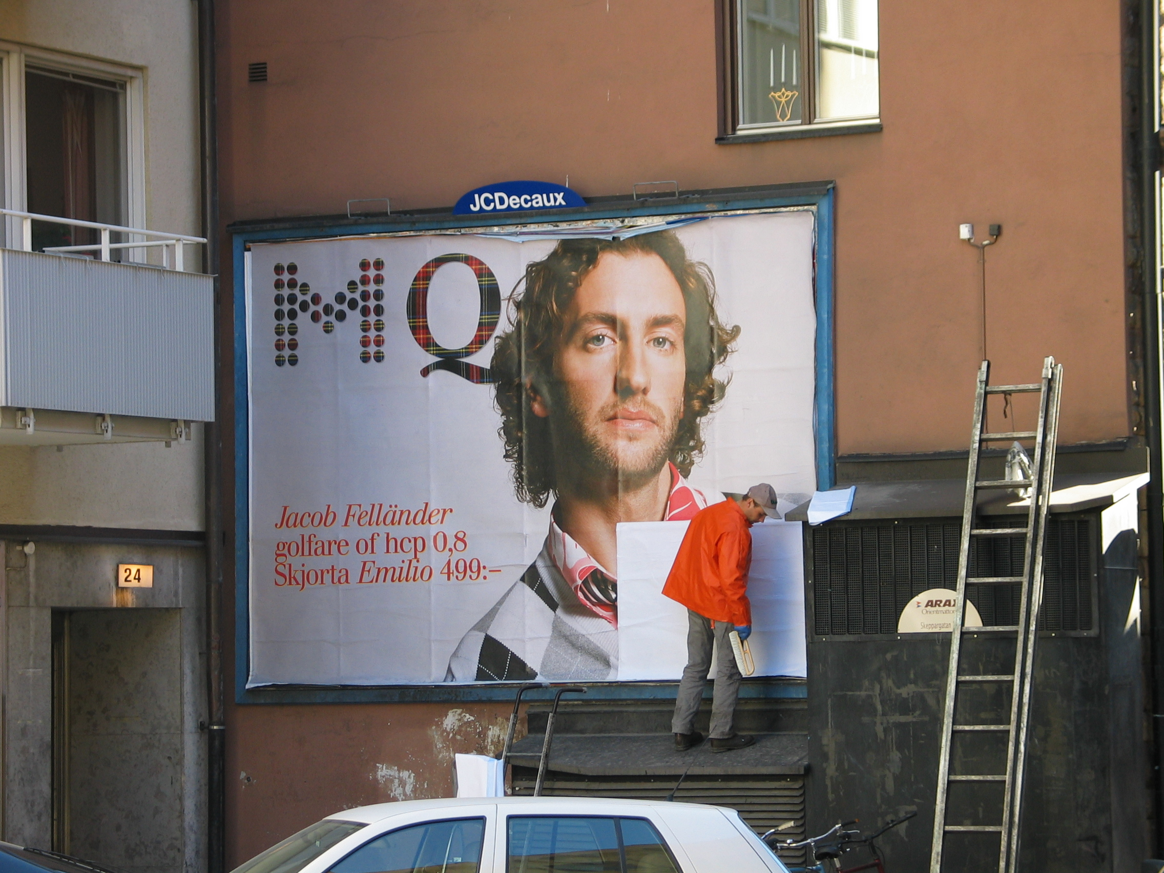 Swedish billboard.